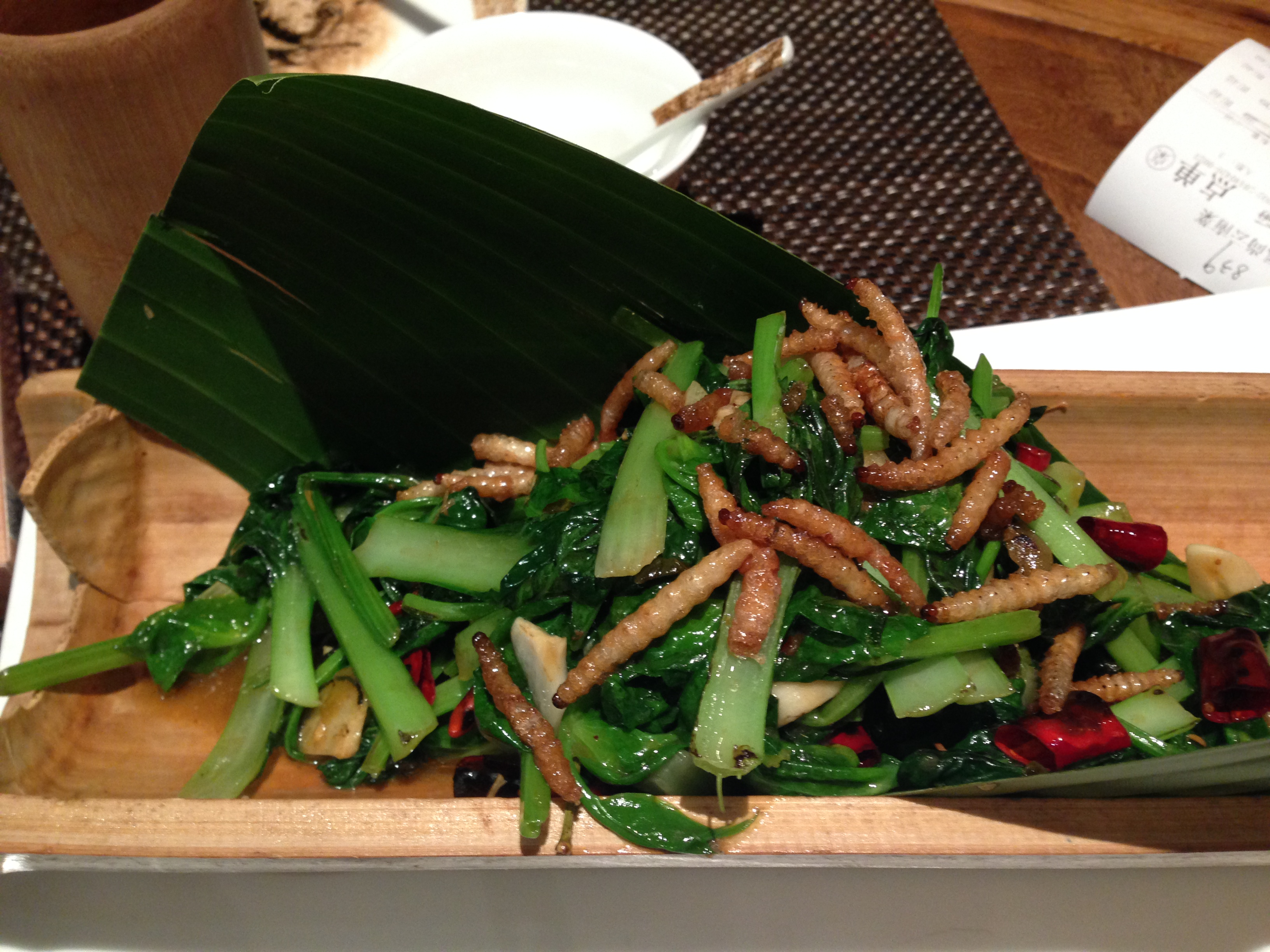 Photograph of a Chinese restaurant dish consisting of mealworms. Served with Bok Choy and chill peppers, it is a dish which is typical of Yunan Province.